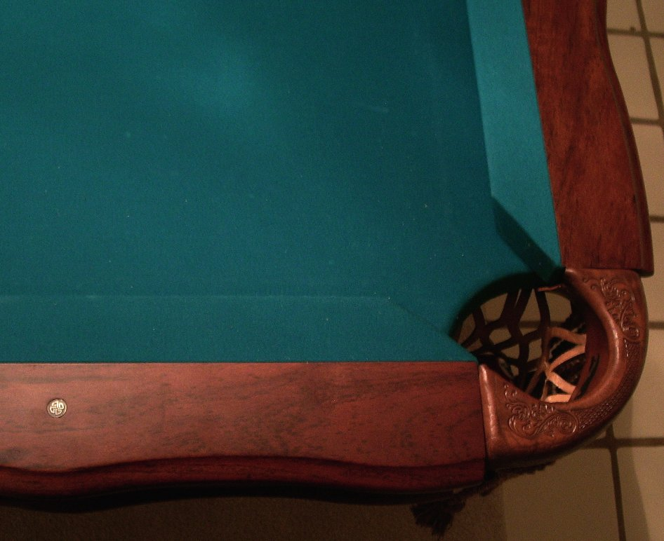 An downward view of a corner pocket of a pool table, showing the leather lattice that forms the pocket. (See "Billiard table" article for other table types.)